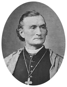 Archbishop Jean B. Lamy Santa Fe, New Mexico Palace of the Governors Photo Archives Negative no. 9970 Photo by W. Henry Brown